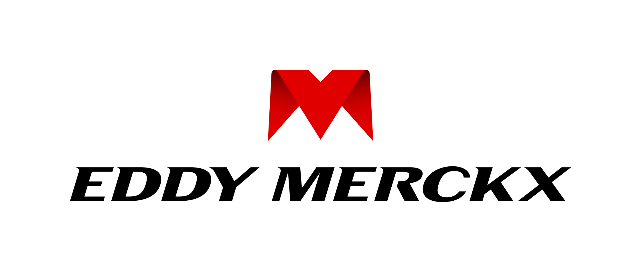 Logo for Belgian bicycle manufacturer Eddy Merckx Cycles